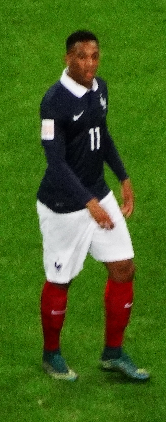 France striker Anthony Martial